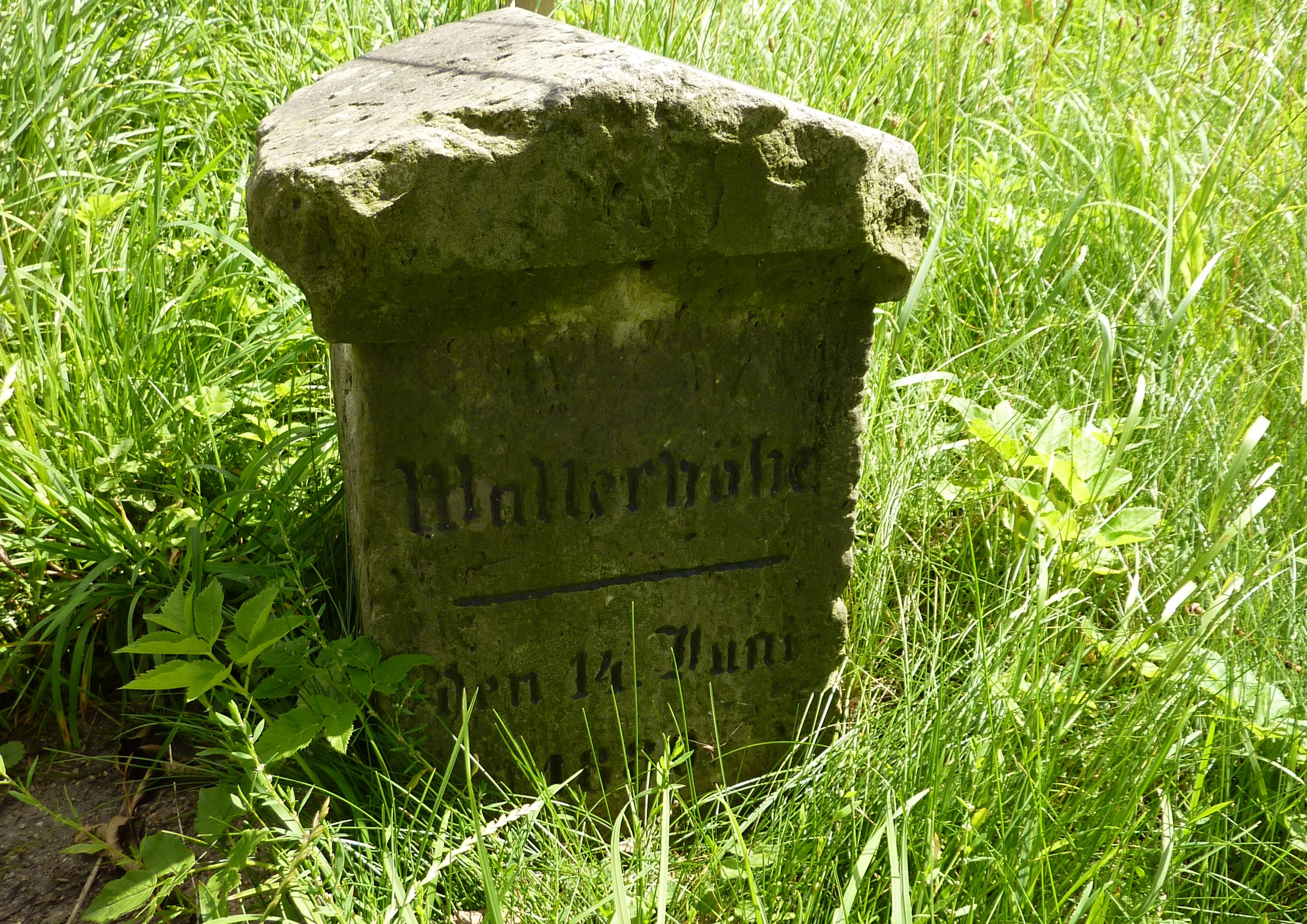 flood mark